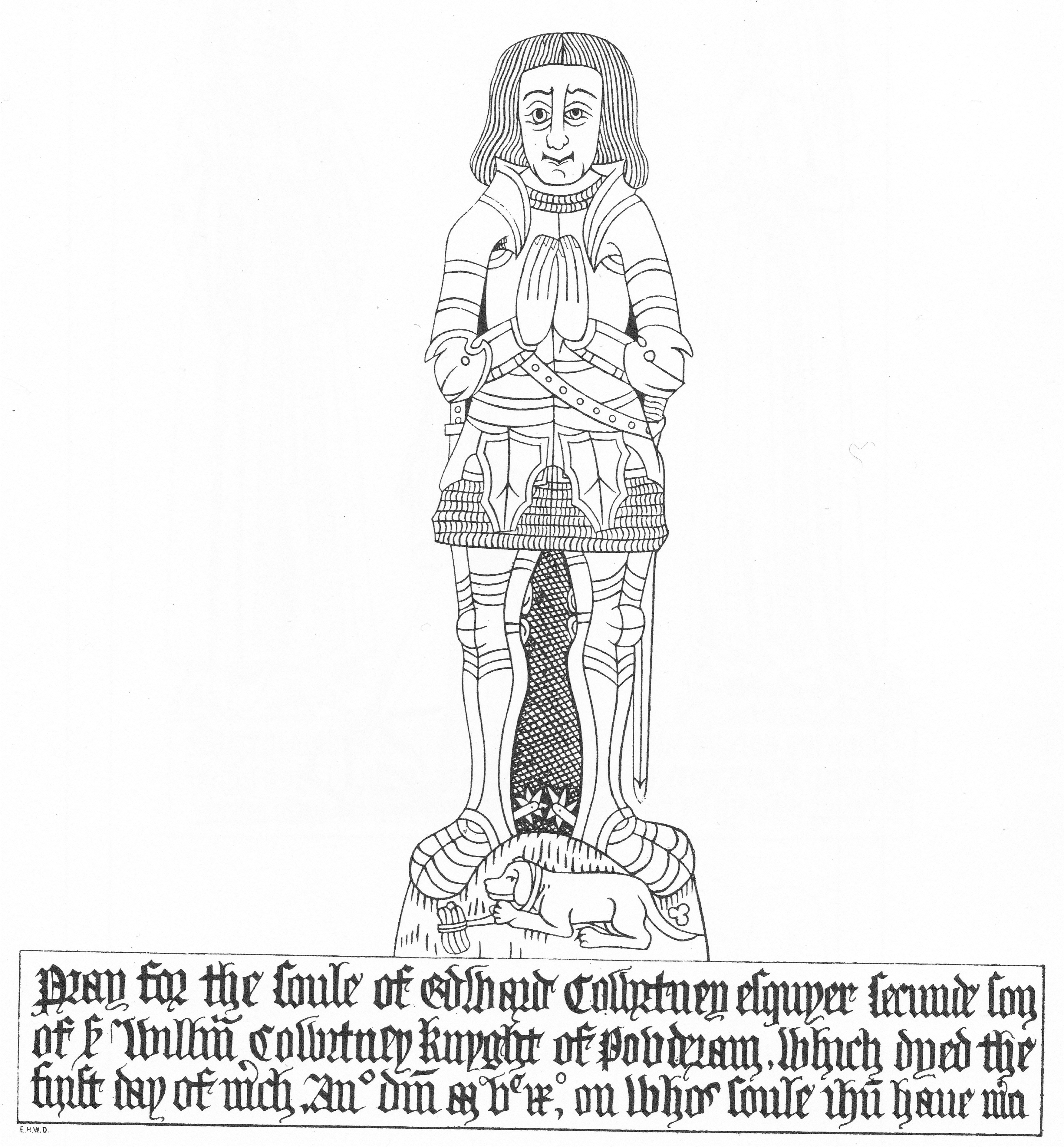 Monumental brass of Edward Courtenay (d.1 March 1509/10) of Landrake, Cornwall, whose monumental brass survives in Landrake Church, who married Alice Wotton (d.1533), daughter and heiress of John Wotton of Wotton in Landrake. He was the 2nd son of Sir William I Courtenay (d.1485) of Powderham, Devon, Sheriff of Devon in 1483, by his wife Margaret Bonville, daughter of William Bonville, 1st Baron Bonville (d.1461). Inscription: "Pray for the soule of Edward Cowrtney esquyer secunde son of Sir William Cowrtney Knight of Povderam, which dyed the fyrst day of March Anno domini MV(C)ix on whose soule ihesu have merci"